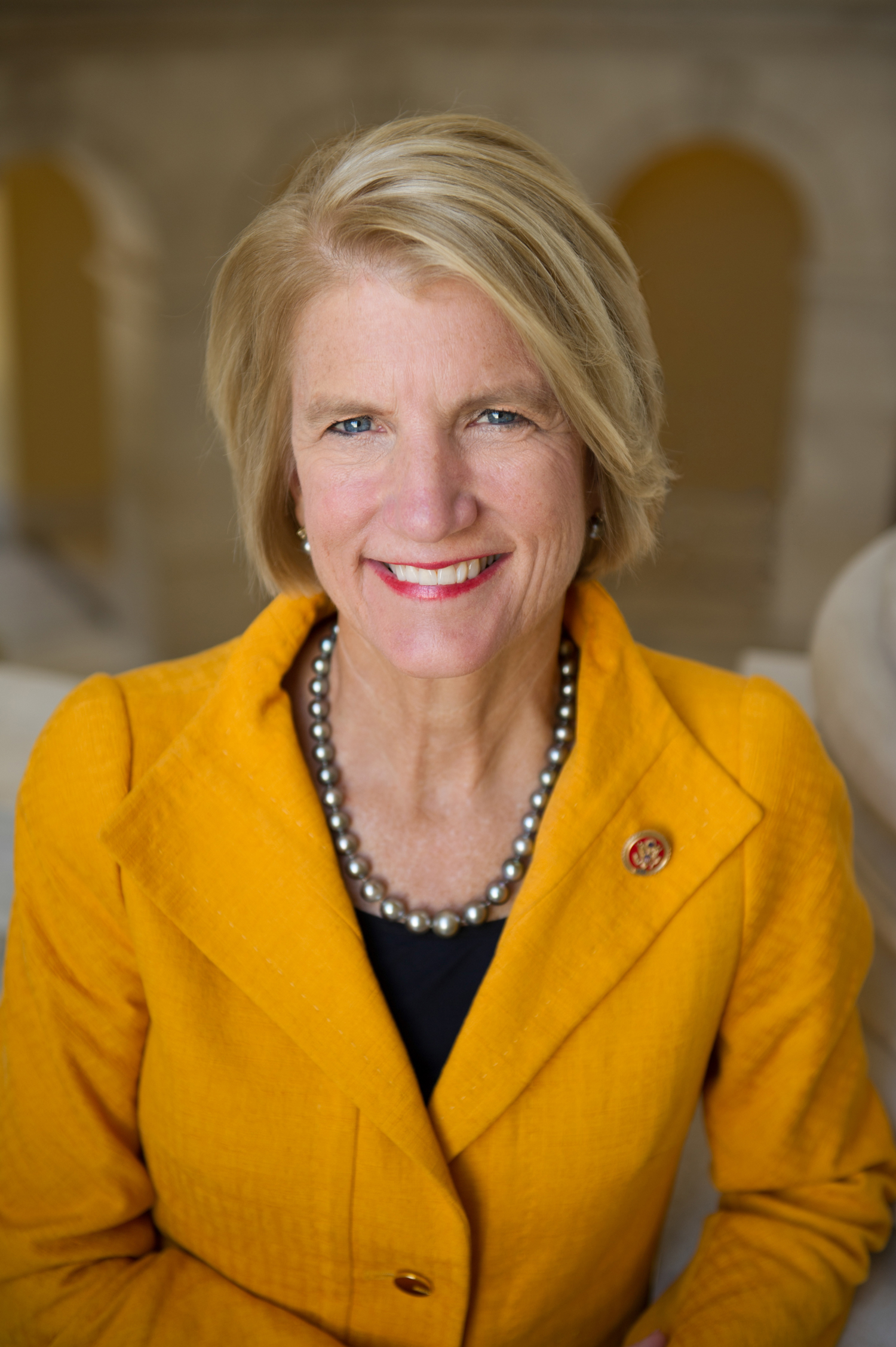 Shelley Moore Capito, U.S. Congresswoman from West Virginia's 2nd district